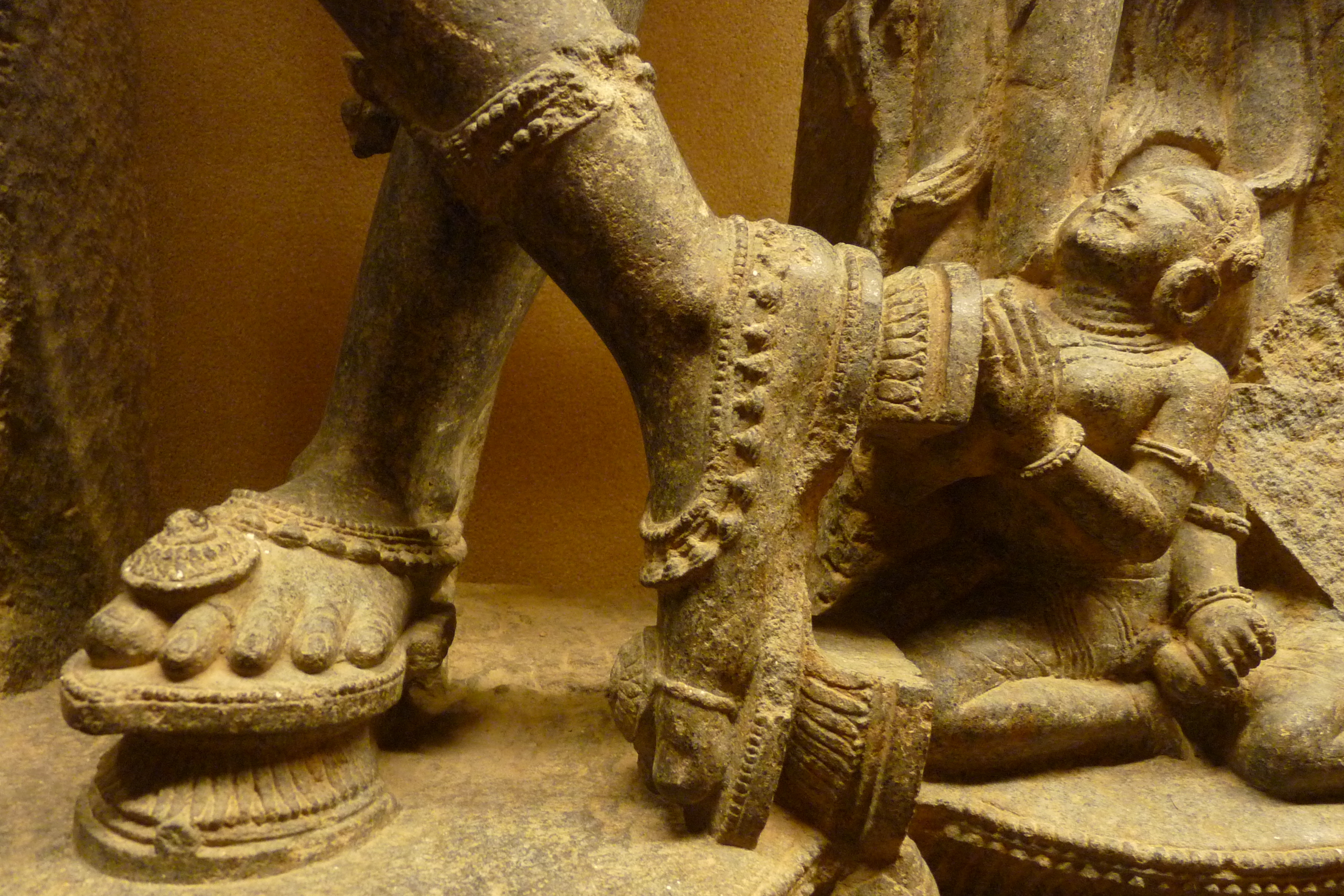 Detail of Krishna's shoes, Orissa State Museum, Bhubaneswar